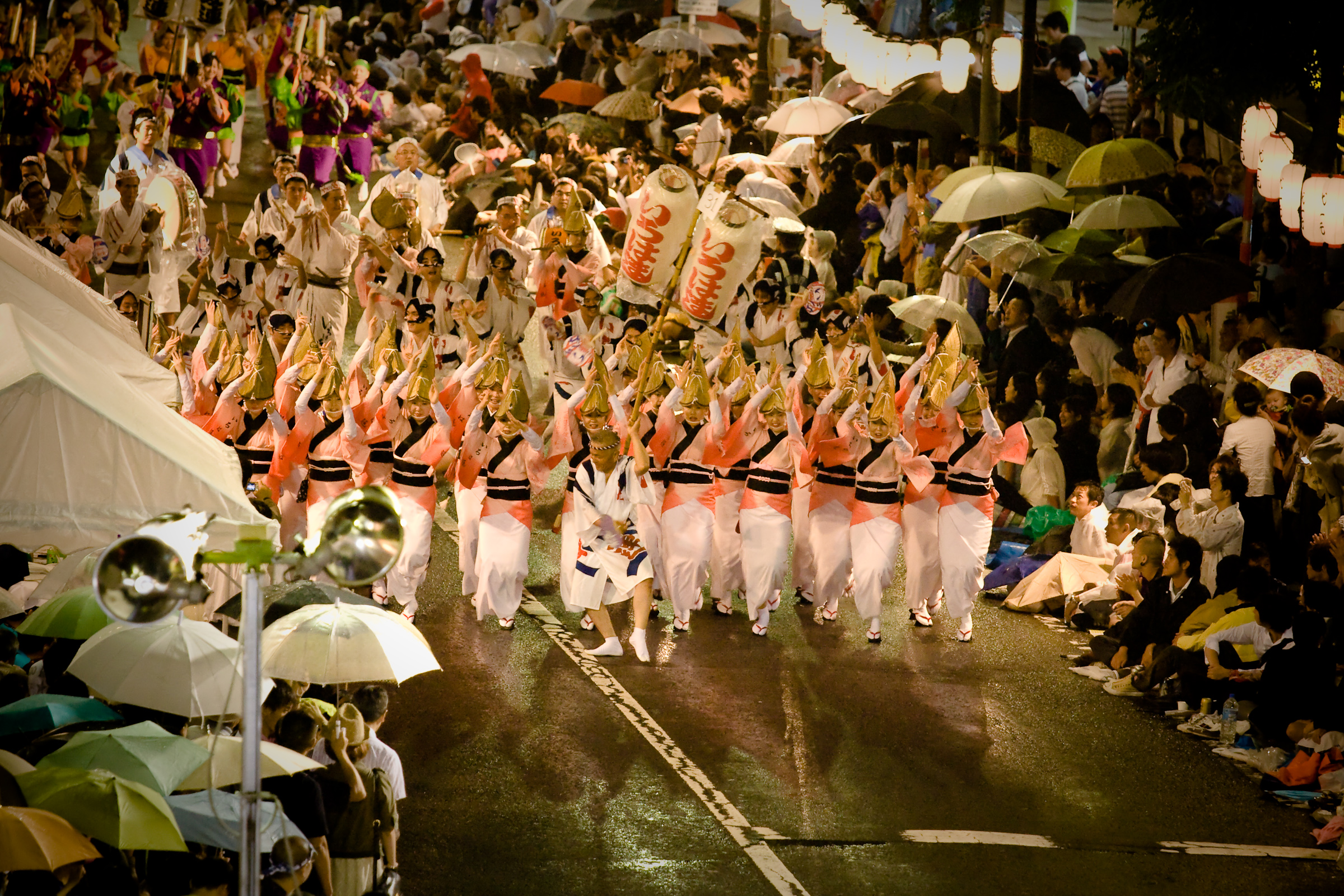 Tokyo Koenji Awaodori Dance Festival